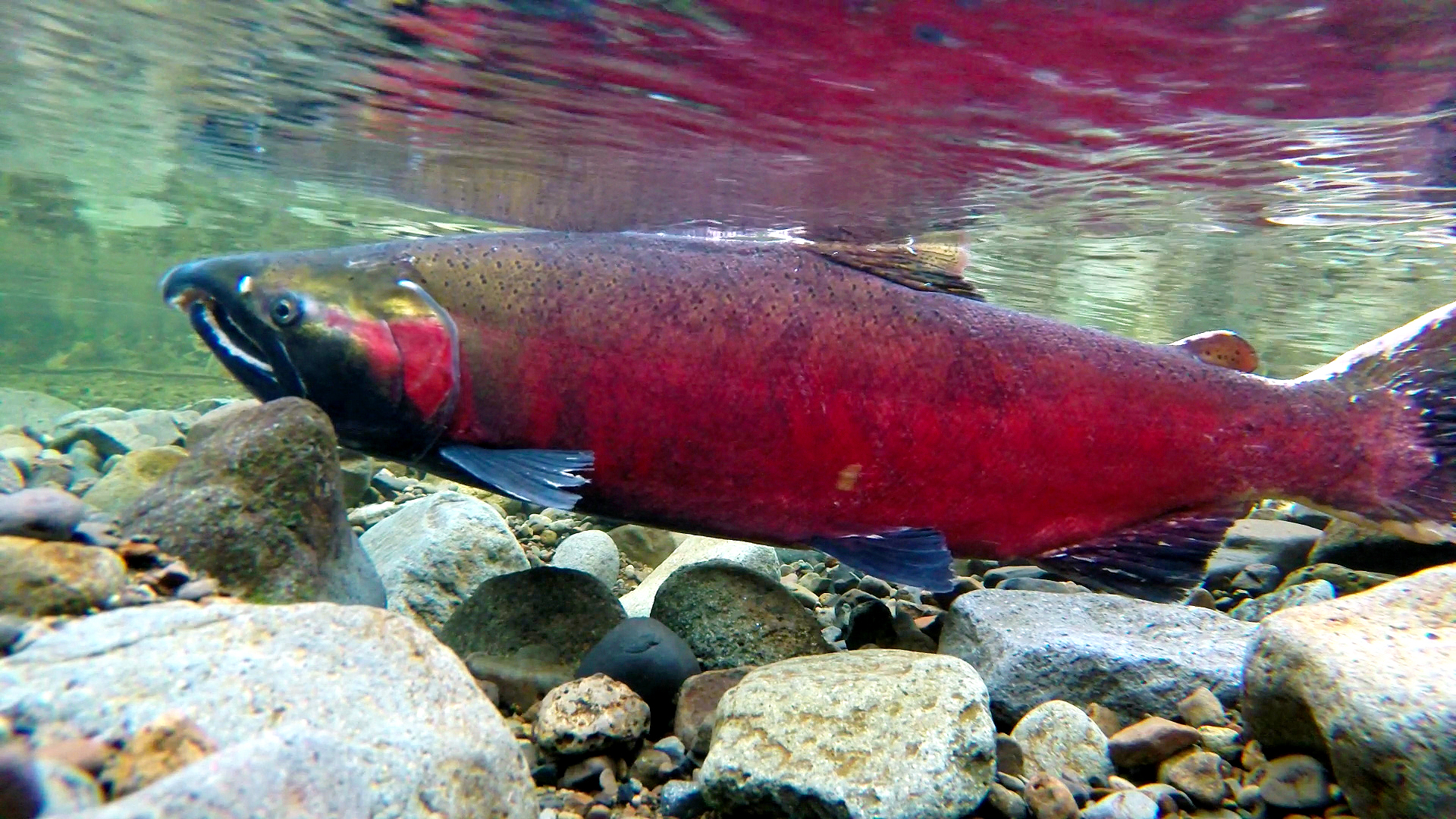 The rivers, streams, and lakes of Oregon and Washington are home to a diverse array of fish species and the BLM is committed to the restoration and protection of the aquatic habitat the fish are dependent on. Salmon and trout species found on BLM-managed lands include bull trout, westslope cutthroat trout, Yellowstone cutthroat trout, Lahontan cutthroat trout, redband trout, steelhead trout, and chinook and sockeye salmon. Five of these species (bull trout, Lahontan cutthroat trout, steelhead trout, chinook salmon, and sockeye salmon) are on the Endangered Species Act list in all or portions of their distribution. The BLM addresses the management of fish and their habitat in District Resource Management Plans and through such initiatives as the Northwest Forest Plan, PACFISH and InFish. The BLM is also a member of the Federal Caucus, which is a group of nine federal agencies with management responsibilities for listed fish species. The Caucus works together to improve interagency coordination and management of all the factors that influence fish survival: habitat, hatcheries, harvest, and hydropower operations. This photo was taken in November 2014 while conducting a coho spawning survey on the Salmon River in northwest Oregon. To learn more about BLM’s fisheries program head on over to: See these fish in action over at our YouTube channel